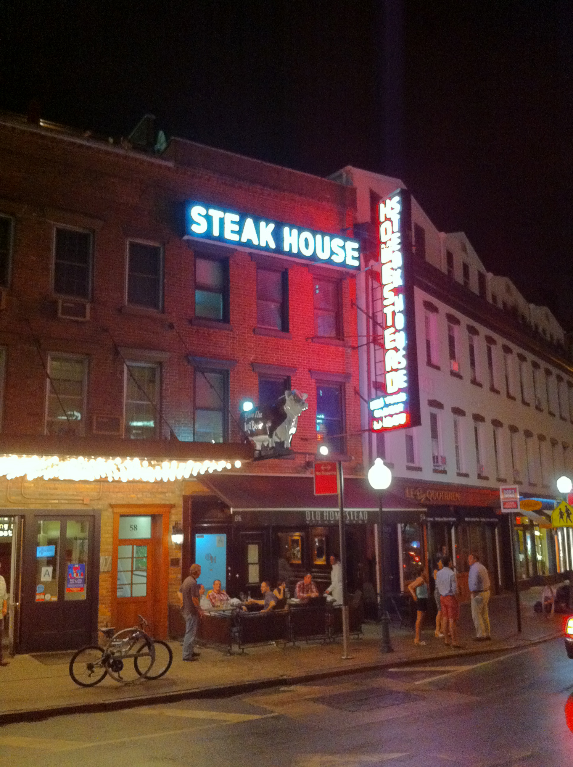 Old Homestead Steak House, 56 9th Avenue, Manhattan, New York.